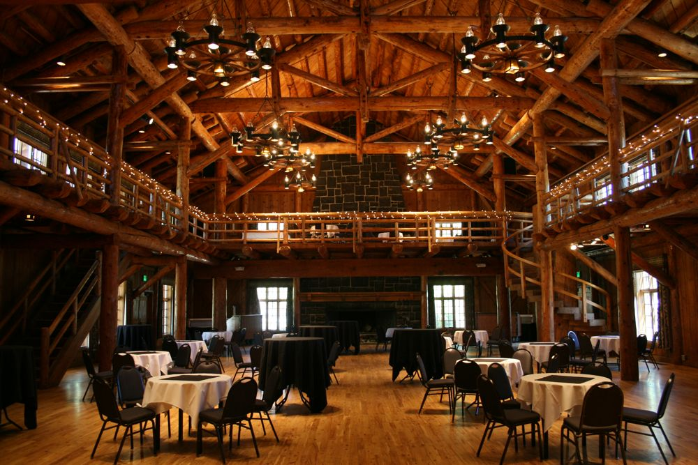 Interior of the “Great Hall” at Sunriver Resort in central Oregon; the building was originally the officers’ mess hall at Camp Abbot